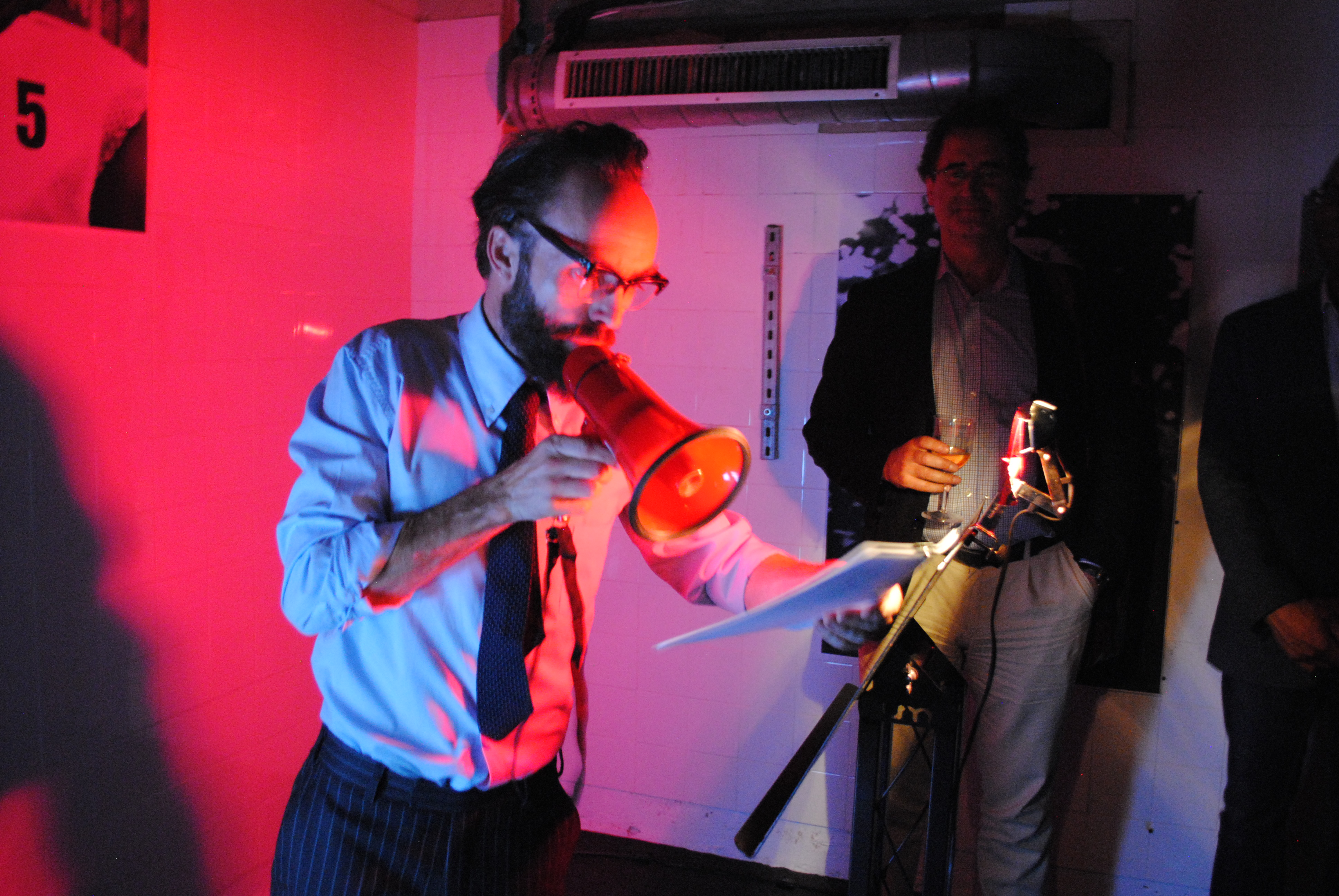 Photograph of Simon Wilkinson performing the New Ten Commandments at The Old Market, Hove, on 9 May 2014 (Taken by Peter Chrisp)